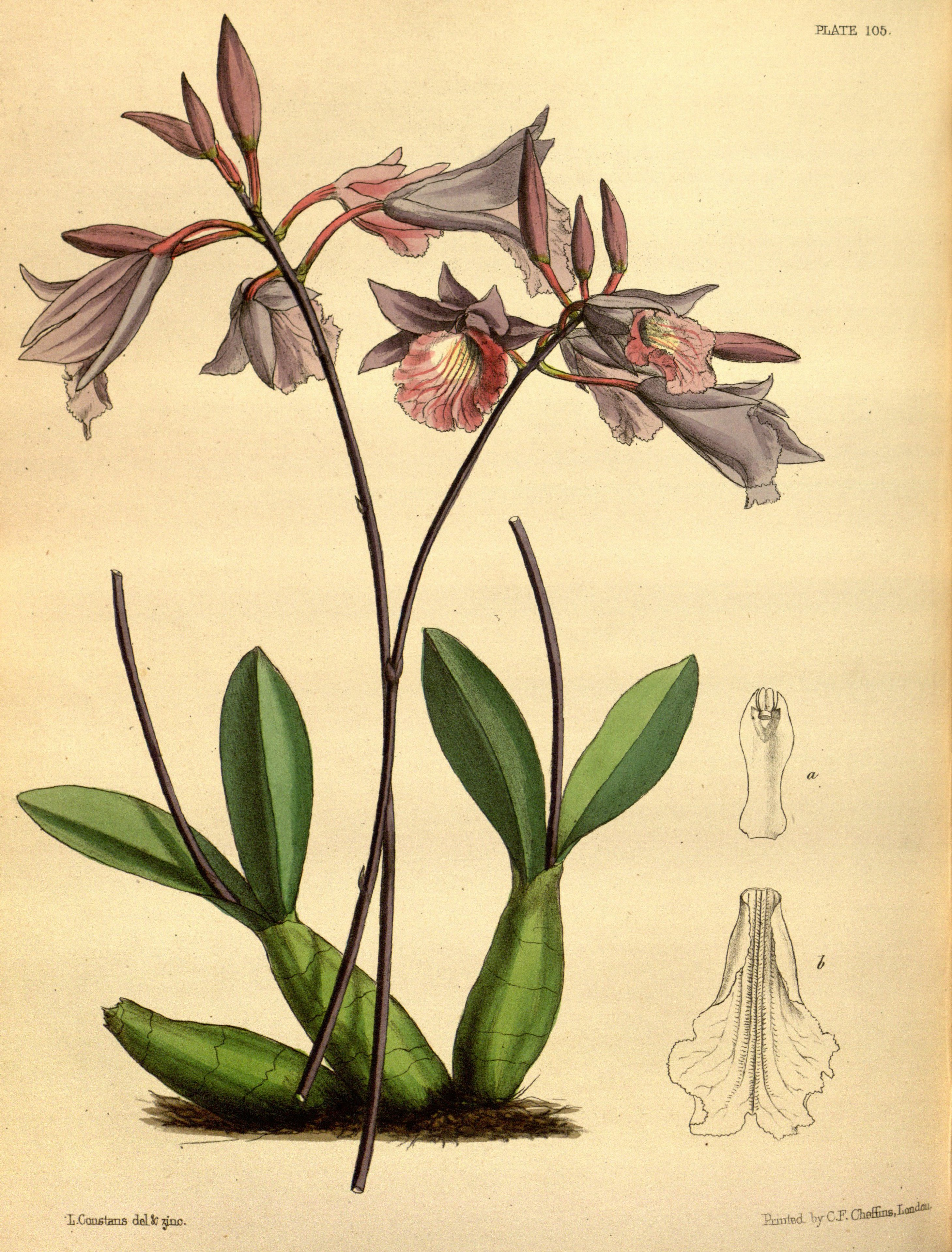 Broughtonia domingensis (Lindl.) Rolfe, syn. Laeliopsis domingensis (Lindl.) Lindl.